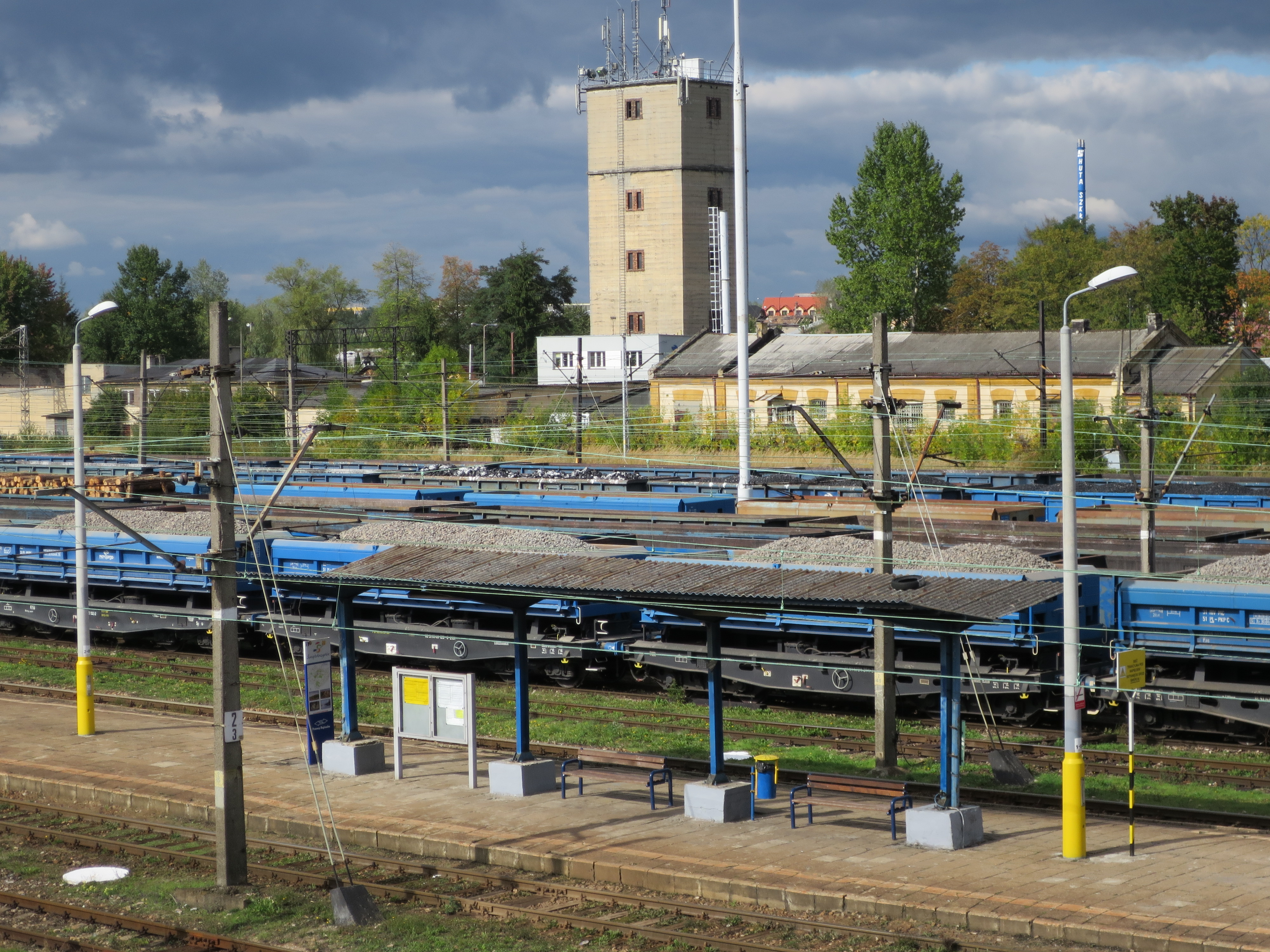 Kielce Herbskie This photo was taken during Railway Wikiexpedition 2015 set up by Wikimedia Polska Association in cooperation with Fundacja Grupy PKP.You can see all photographs in category Wikiekspedycja kolejowa 2015.